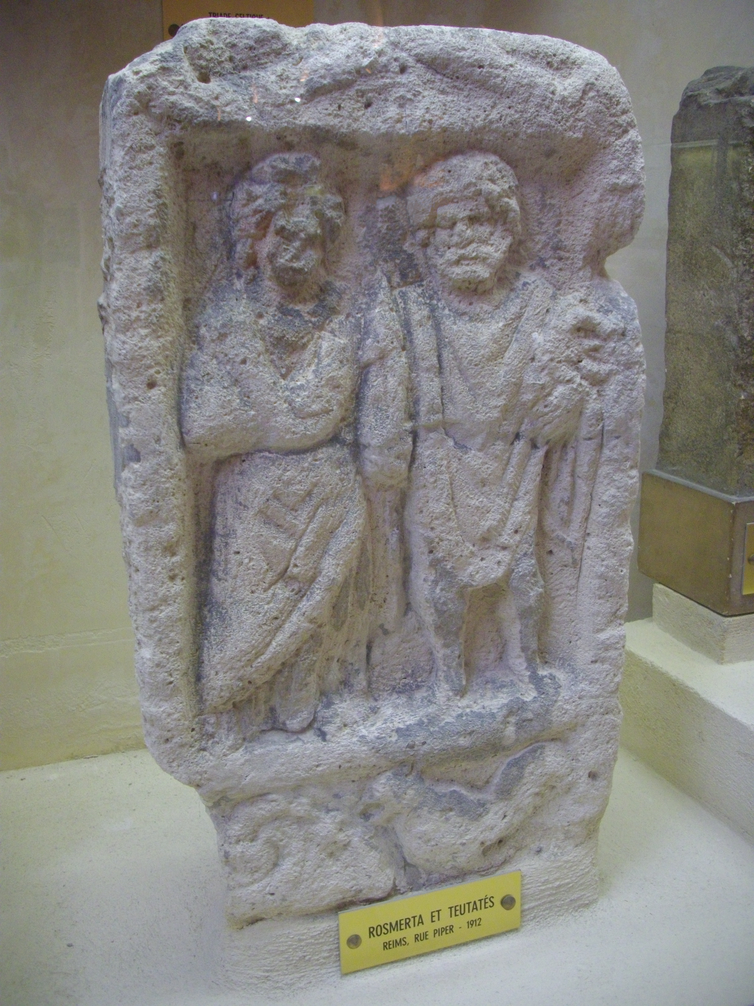 Saint Remi museum of Reims (Marne, France) ; Roman antiquities : Rosmerta and Toutatis